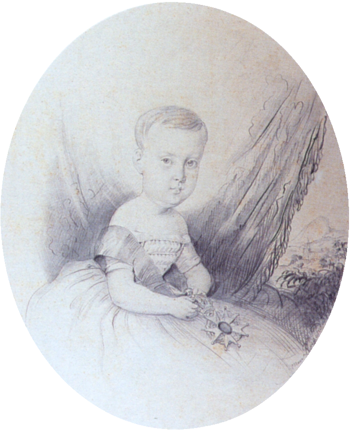 Afonso, Prince Imperial of Brazil, eldest son of Pedro II. 1845.